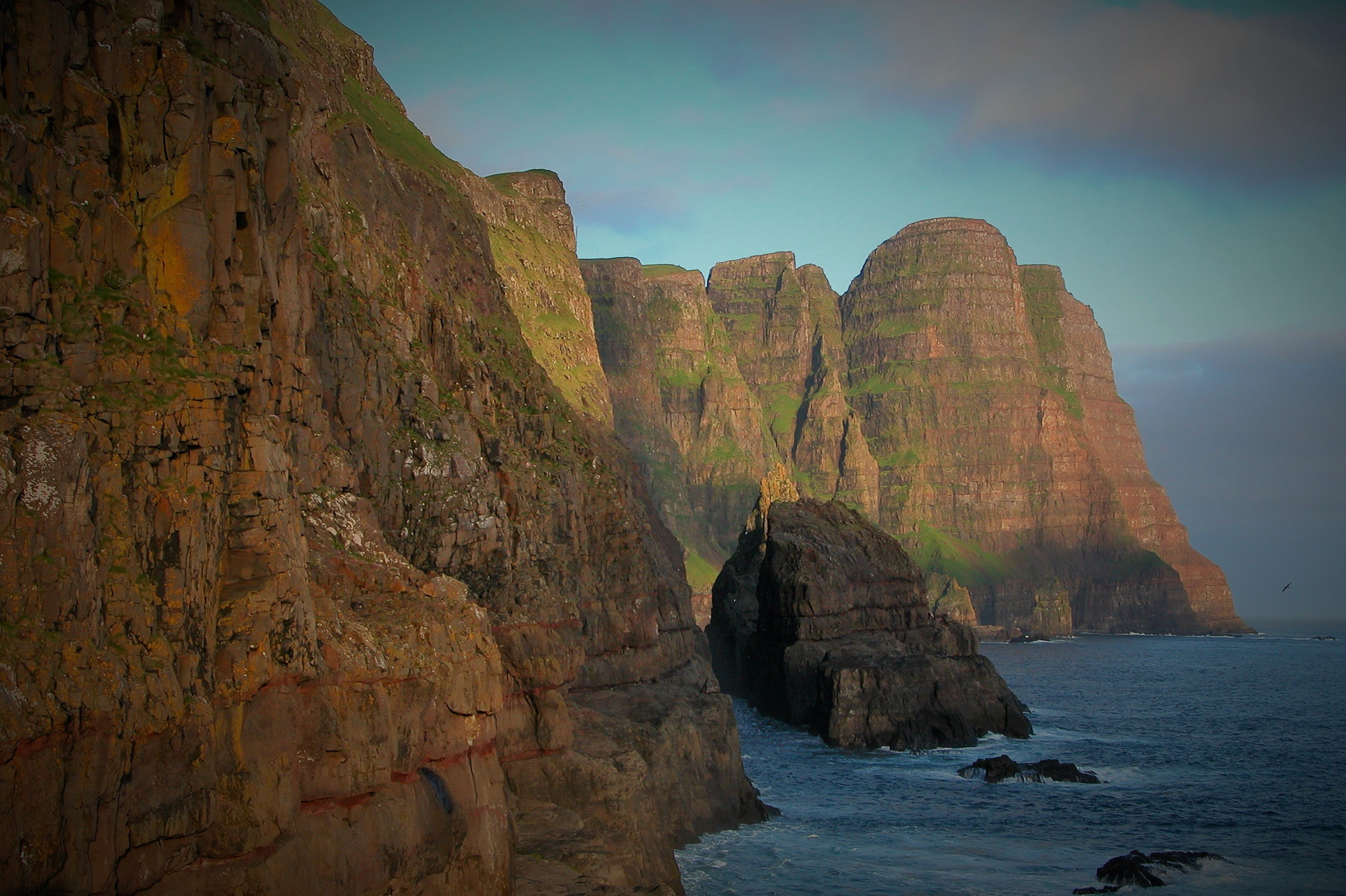 Westcoast of Suðuroy between Lopraneiði and Beinisvørð.